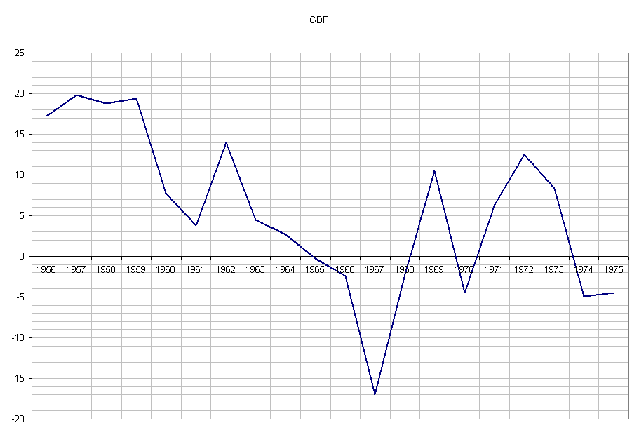 RAnnual GDP growth rate of Republic of Vietnam during 1956 and 1975